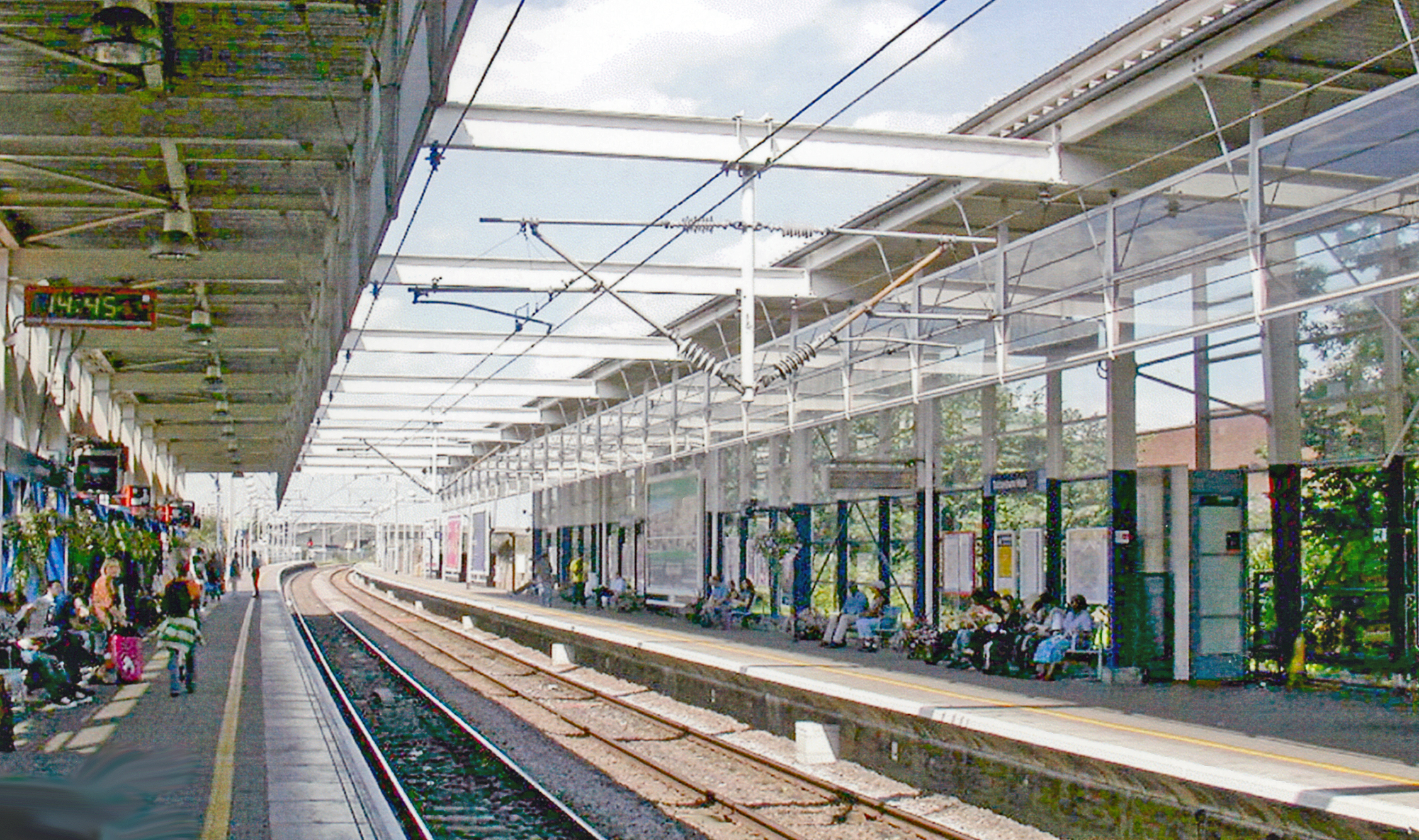 Tottenham Hale Station. View northward, towards Bishops Stortford, Stansted Airport, Cambridge etc.: ex-GER Lea Valley main line. On 1/9/68 the LUL Victoria Line has had a station beneath; since 19/3/91 when the Stansted Airport branch was opened, this has become a busy interchange station. (Between 11/38 and 12/68 it was plain 'Tottenham').